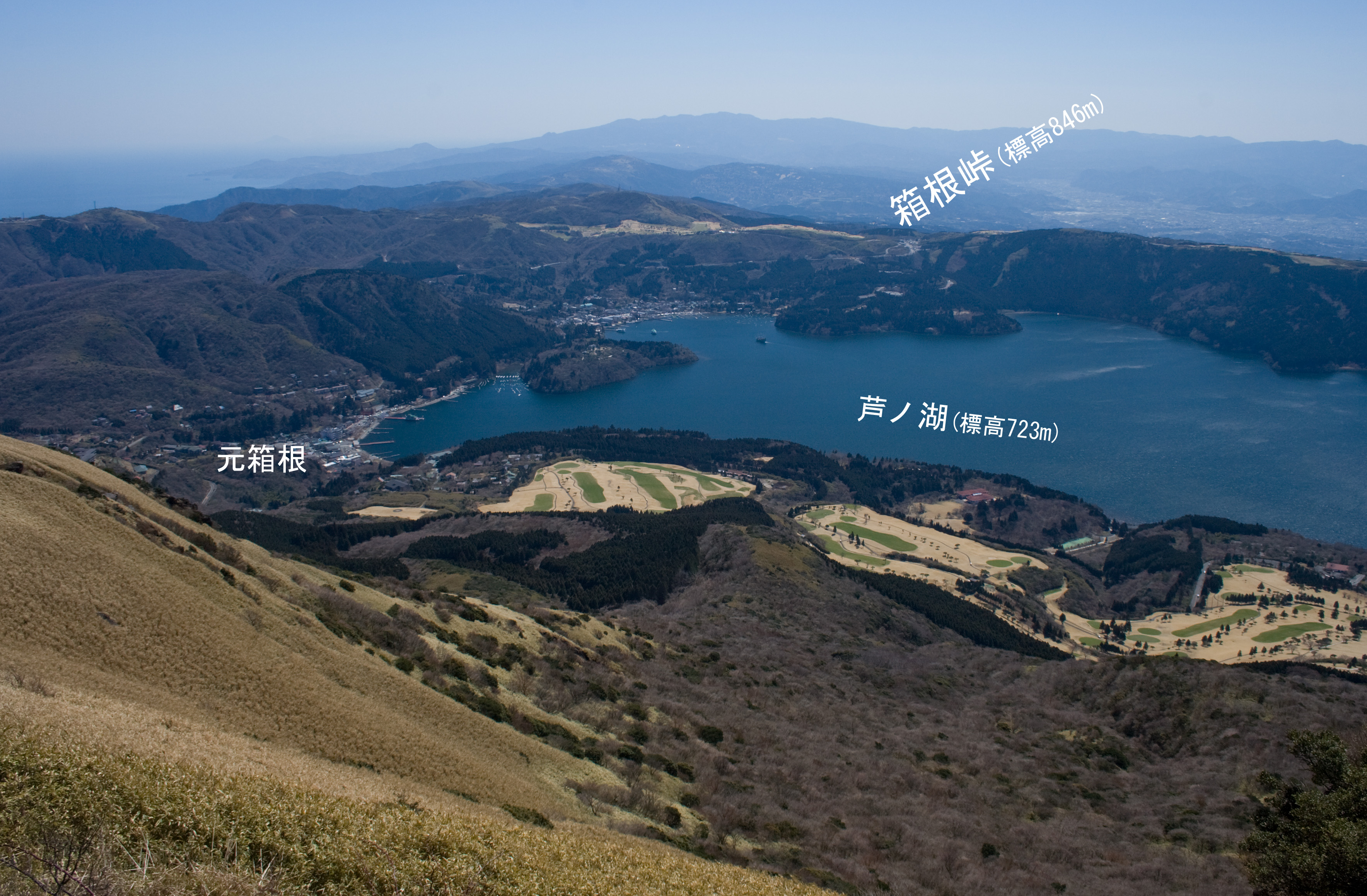 Lake Ashi, Hakone, Kanagawa, Japan.